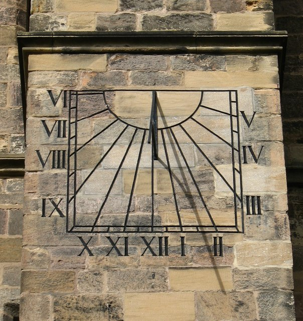 Sundial on Ripon Cathedral, Yorkshire, England